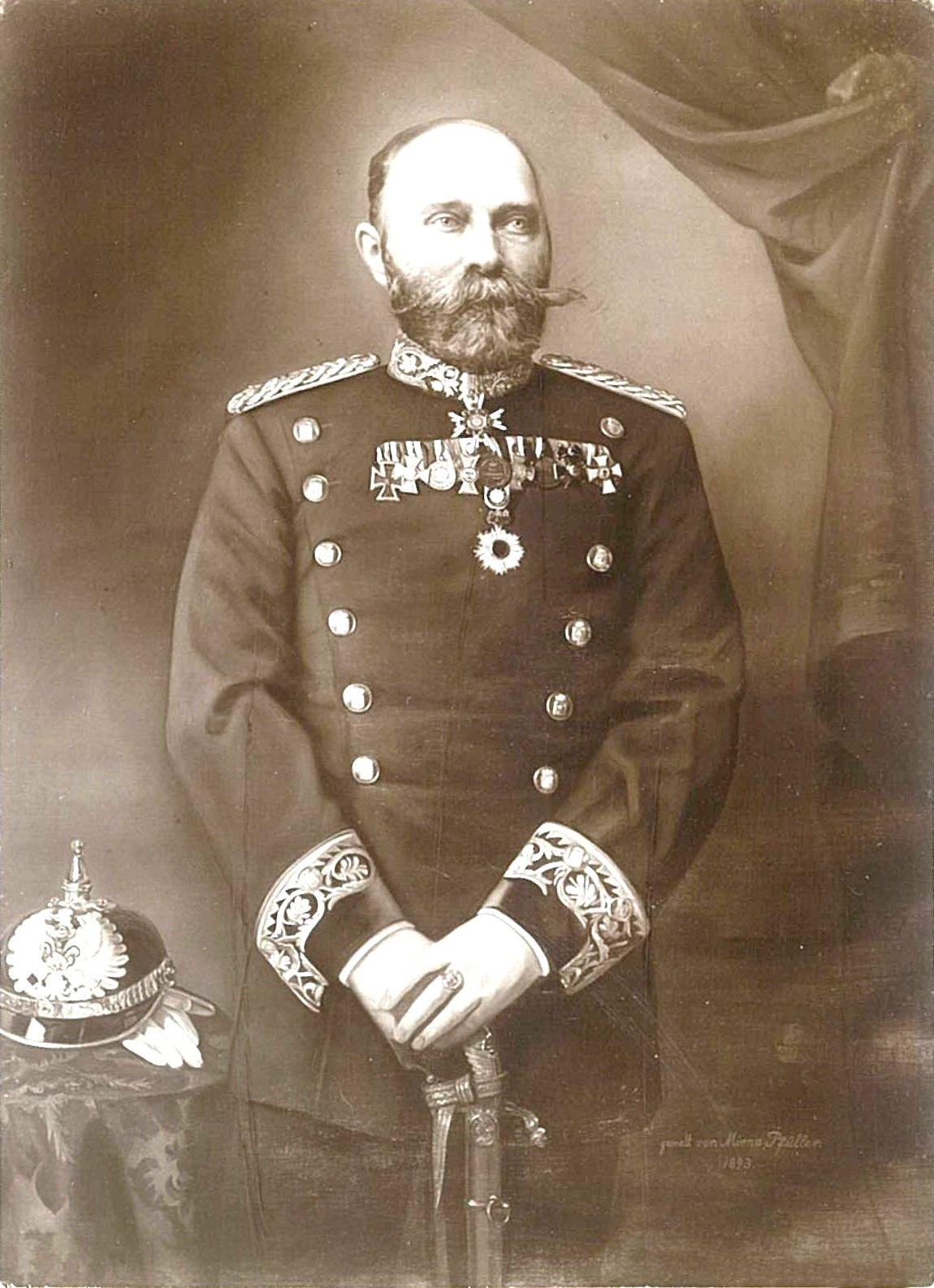 German Policeofficer Wilhelm Höhn (1839-1892)